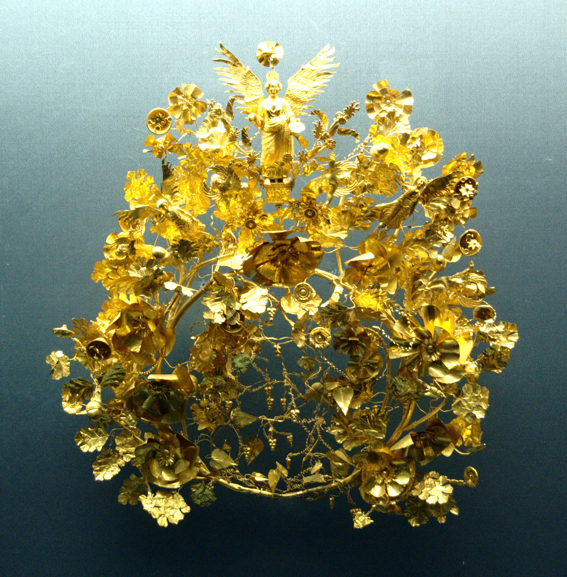 Golden decorated crown, funerary or marriage material, 370–360 BC. From a grave in Armento (Basilicata).